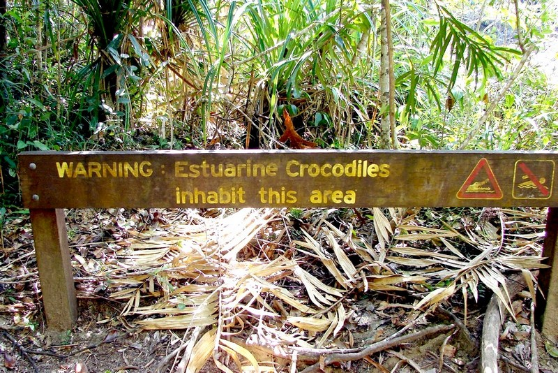 Crocodile warning sign at North Zoe creek, Hinchinbrook island